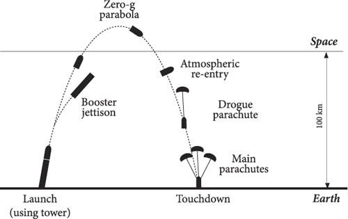 The flightpath of the manned Suborbital flight.